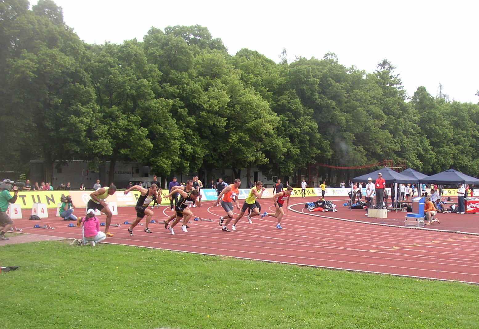 Athletes running in second heat of men's 100m at 4th edition of the TNT - Fortuna Meeting (IAAF World Combined Events Challenge Meeting, Sletiště Stadium, Kladno, Czech Republic, 15 June 2010, 12:06). - Adam Pašiak (CZE) 11.22 s Eduard Mihan (BLR) 10.94 s Dmitriy Karpov (KAZ) 11.18 s Roman Šebrle (CZE) 25.49 (injury) Brent Newdick (NZL) 11.08 s Darius Draudvila (LTU) 10.87 s Claston Bernard (JAM) 11.23 s wind: -1.0 m/s